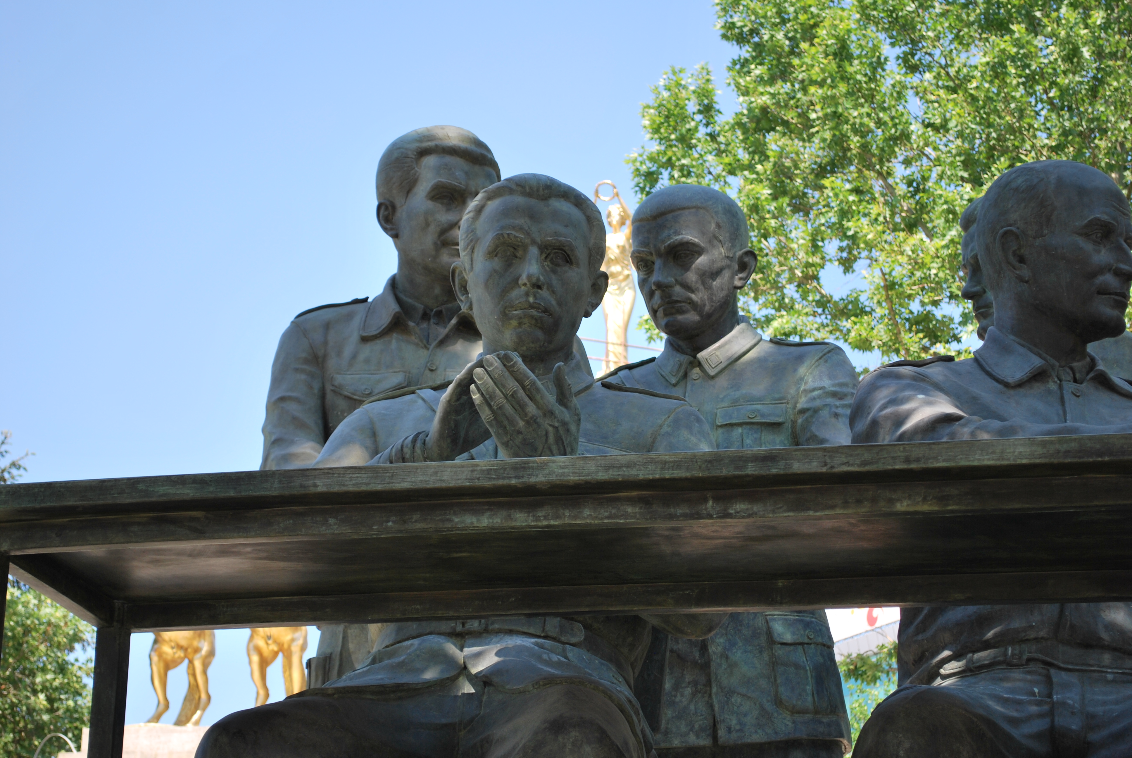 IMonument of the First Plenary Session of ASNOM in Skopje, Macedonia